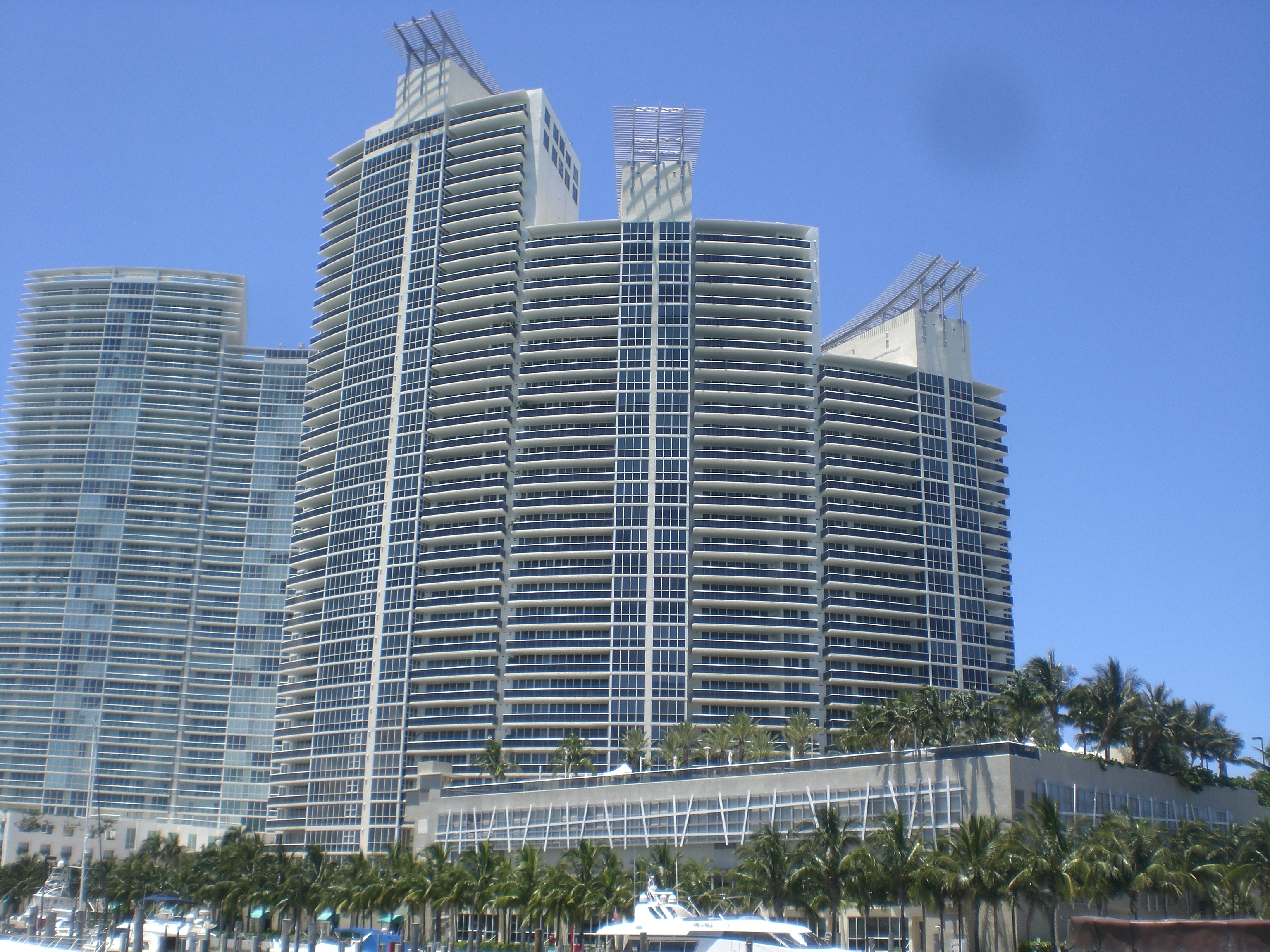 Digital photo taken by Marc Averette. The Murano Grande at Portofino in Miami Beach, Florida July 2007